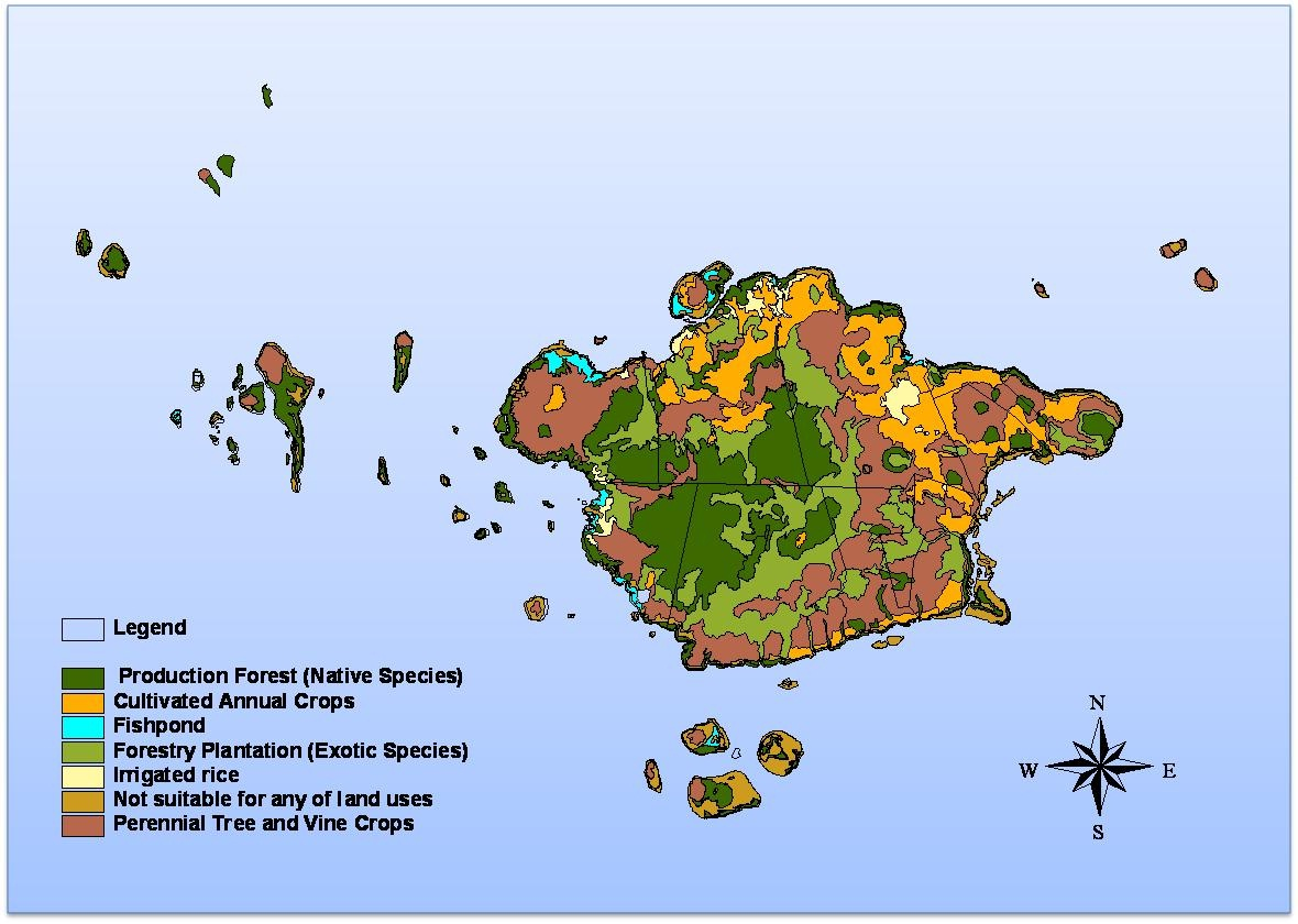 Basilan Economic Profile, Production Framework Map